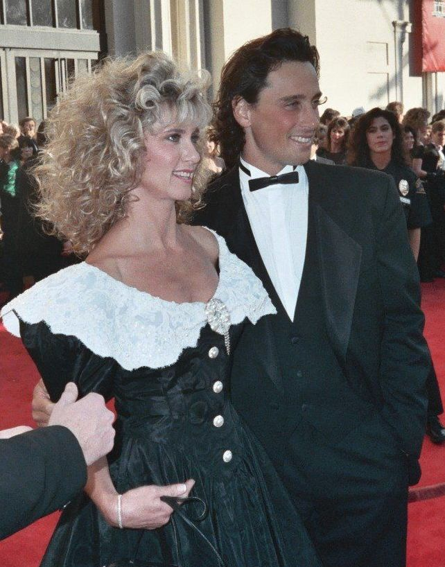 Olivia Newton-John and husband Matt Lattanzi on the red carpet at the at the 61st Annual Academy Awards, 1989.